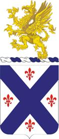 126 Infantry/Armor/Cavalry Coat of Arms